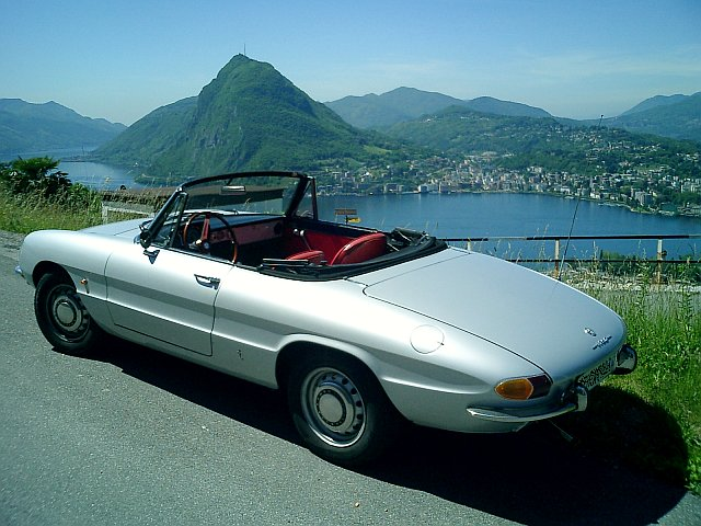 Alfa Romeo Spider 'Roundtail' 1968, Image taken by Marc O. Gloor, Zurich/Switzerland